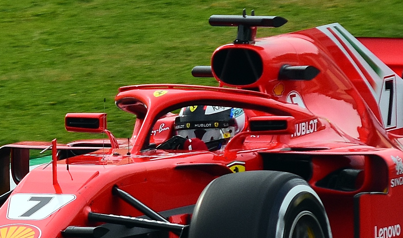 Kimi Räikkönen testing the Ferrari SF71H during pre-season testing in Barcelona. Detail of the new Halo system.